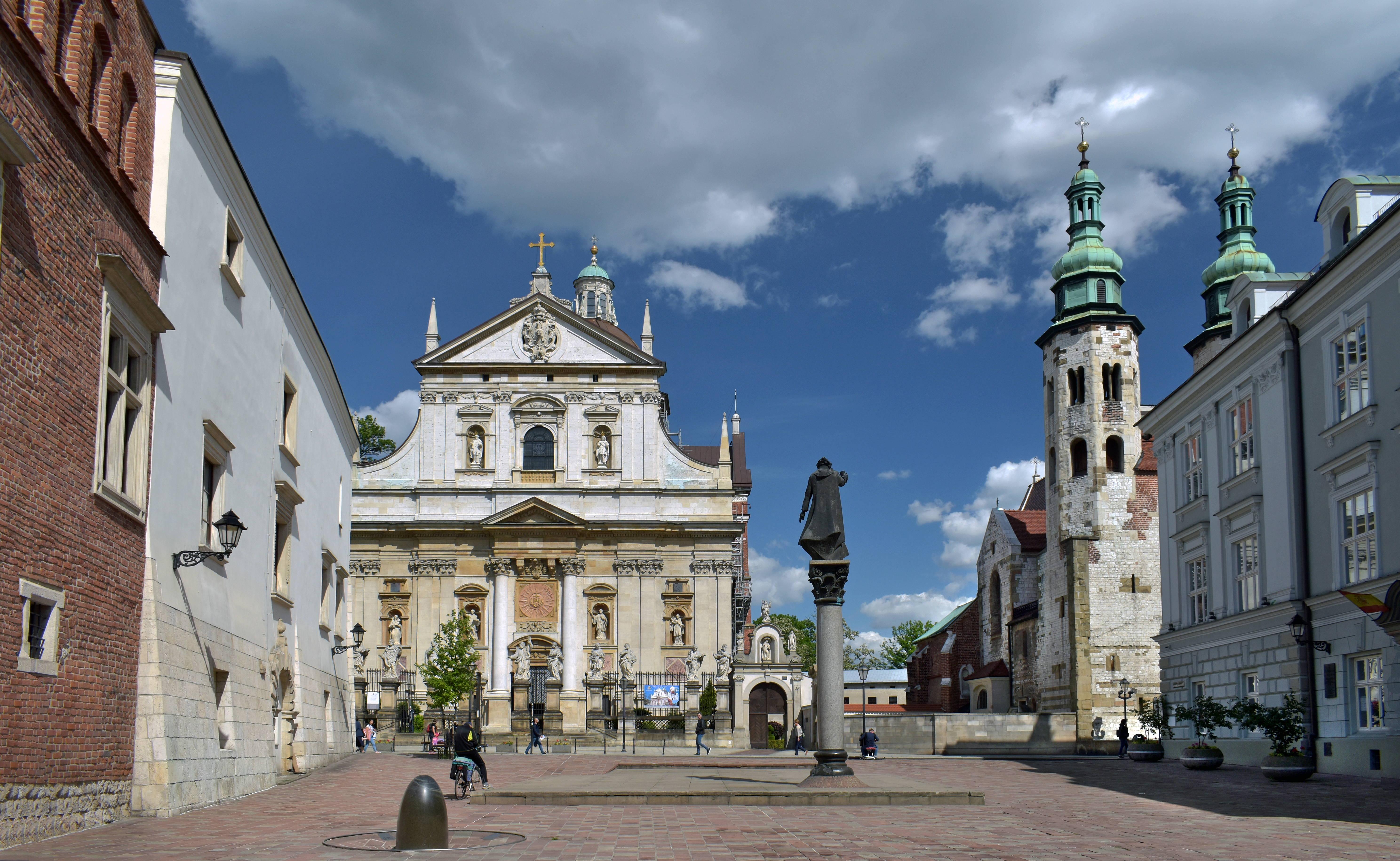 St. Mary Magdalene square (view to E), Old Town, Krakow, Poland